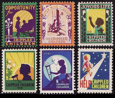 Easter seals of the U.S.A., 1930s, created to support crippled children